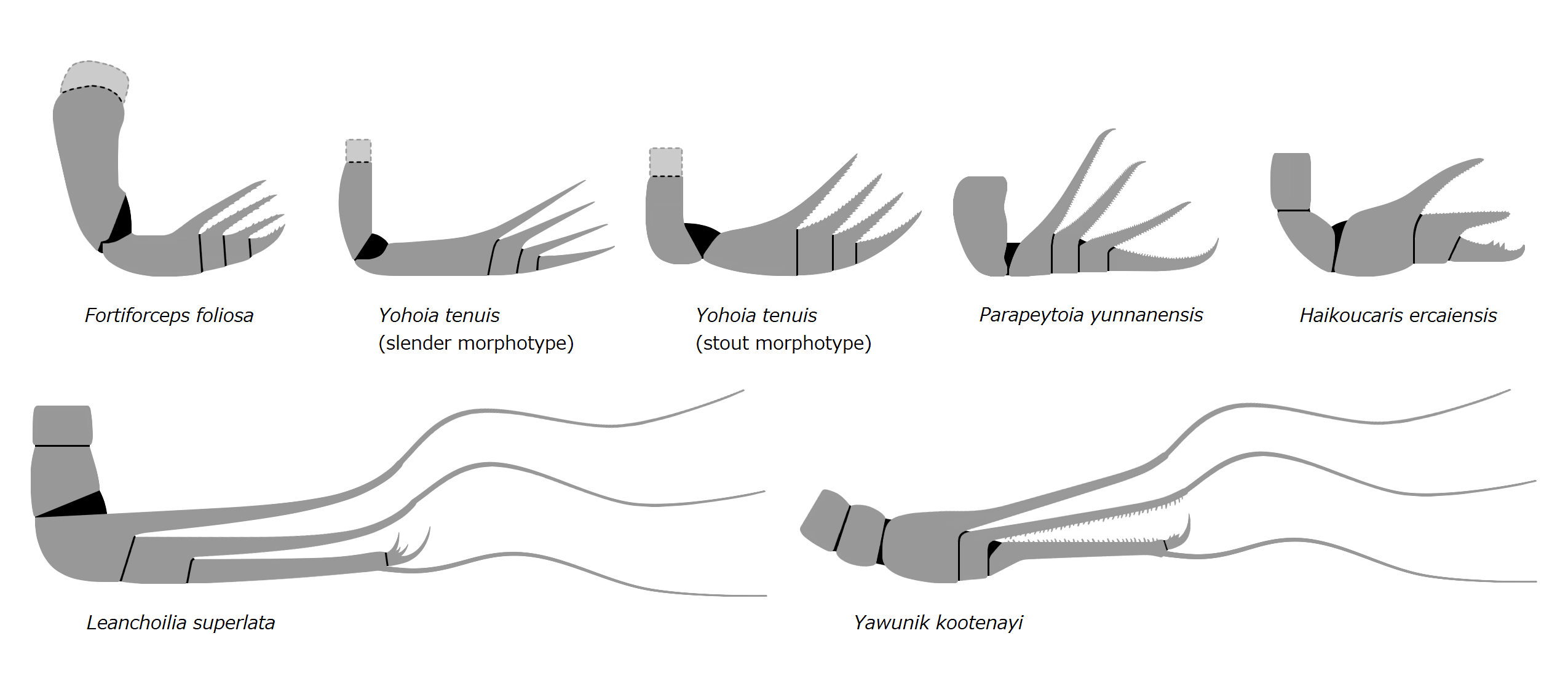 Great appendages (short-great appendages) of various megacheirans. Size not to scale. A: レアンコイリア Leanchoilia superlata B: ヤウニク Yawunik kootenayi C: パラペユトイア Parapeytoia yunnanensis D: フォルティフォルケプス Fortiforceps foliosa E: ヨホイア Yohoia tenuis (slender form) F: ヨホイア Yohoia tenuis (stout form) G: ハイコウカリス Haikoucaris ercaiensis References 参考文献: Functional morphology, ontogeny and evolution of mantis shrimp-like predators in the Cambrian (March 2012) Morphology and function in the Cambrian Burgess Shale megacheiran arthropod Leanchoilia superlata and the application of a descriptive matrix (August 2012) A large new leanchoiliid from the Burgess Shale and the influence of inapplicable states on stem arthropod phylogeny (March 2015)